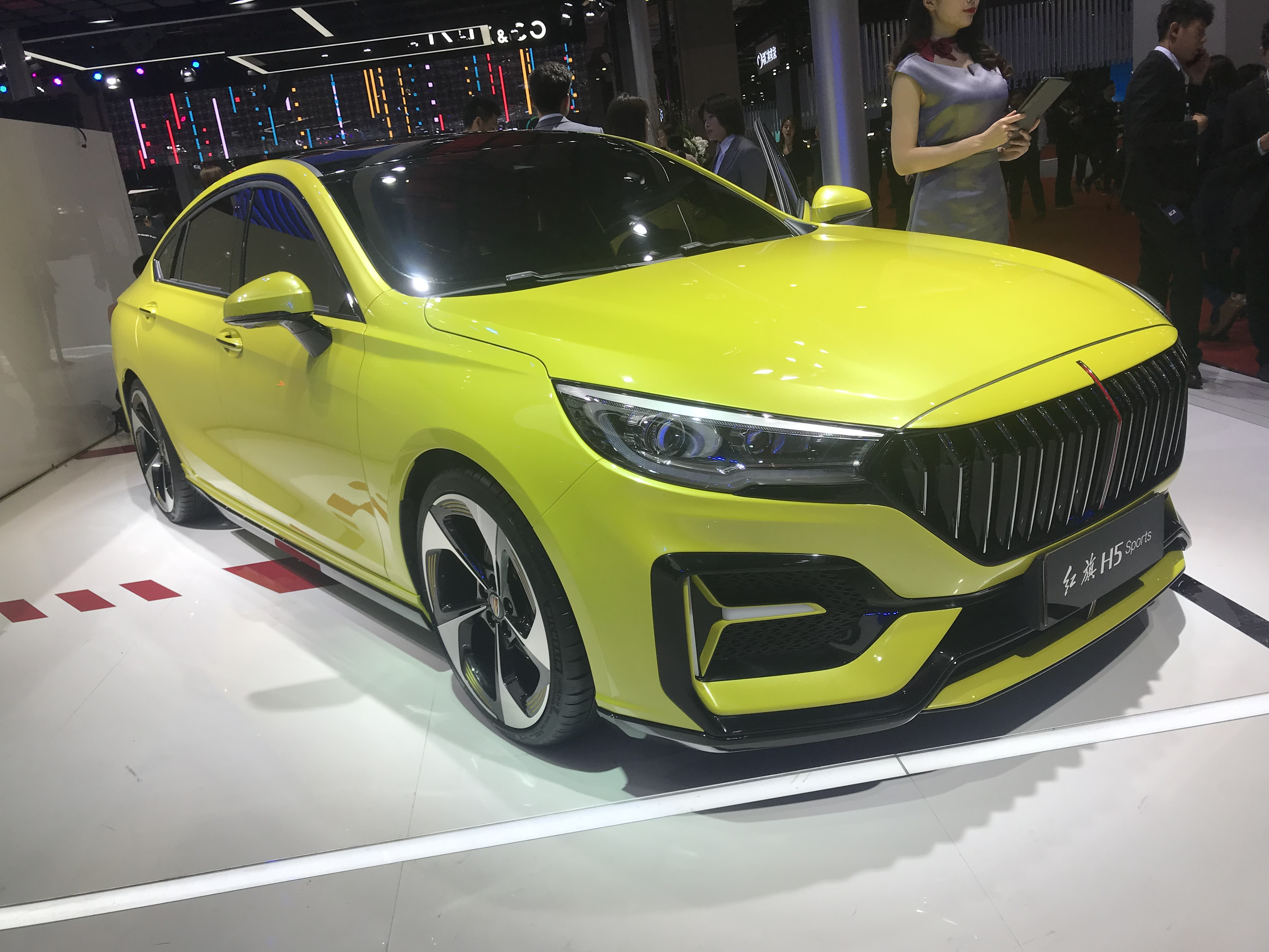 Hongqi H5 Sport front